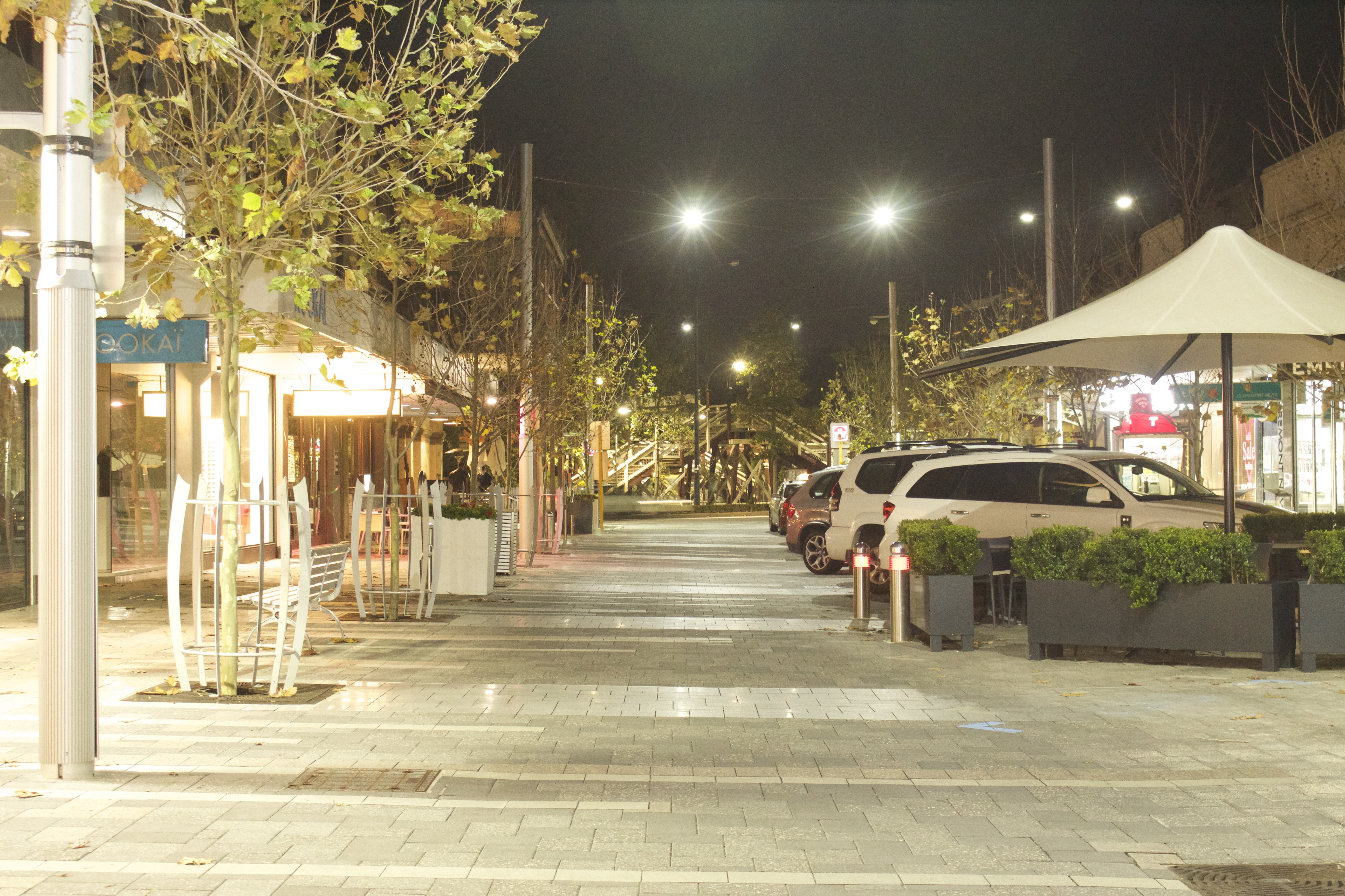 Bayview Terrace during nighttime, note that the Claremont Train Station is directly ahead, this image shows the bright lights